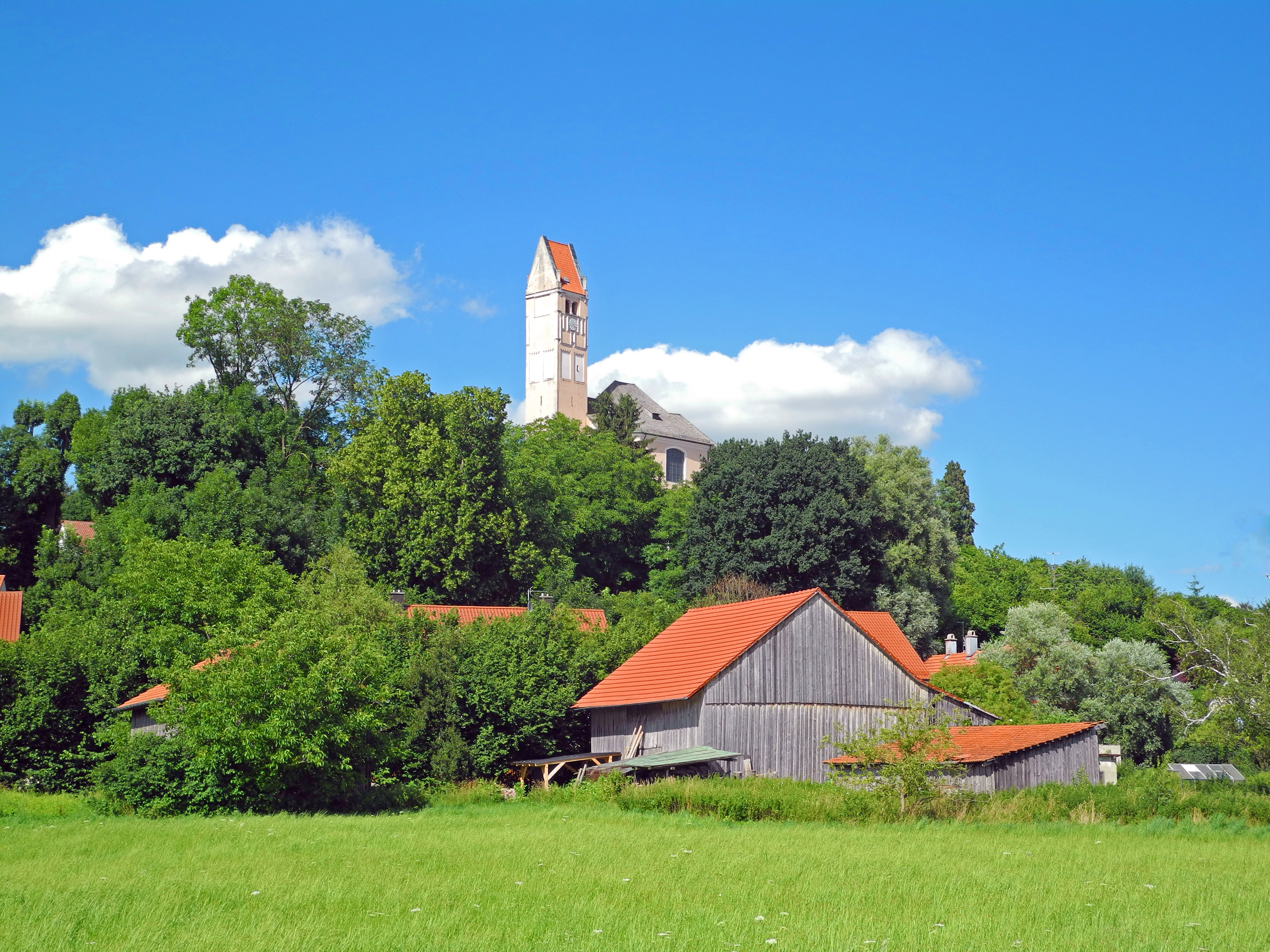 Bergkirchen near Munich